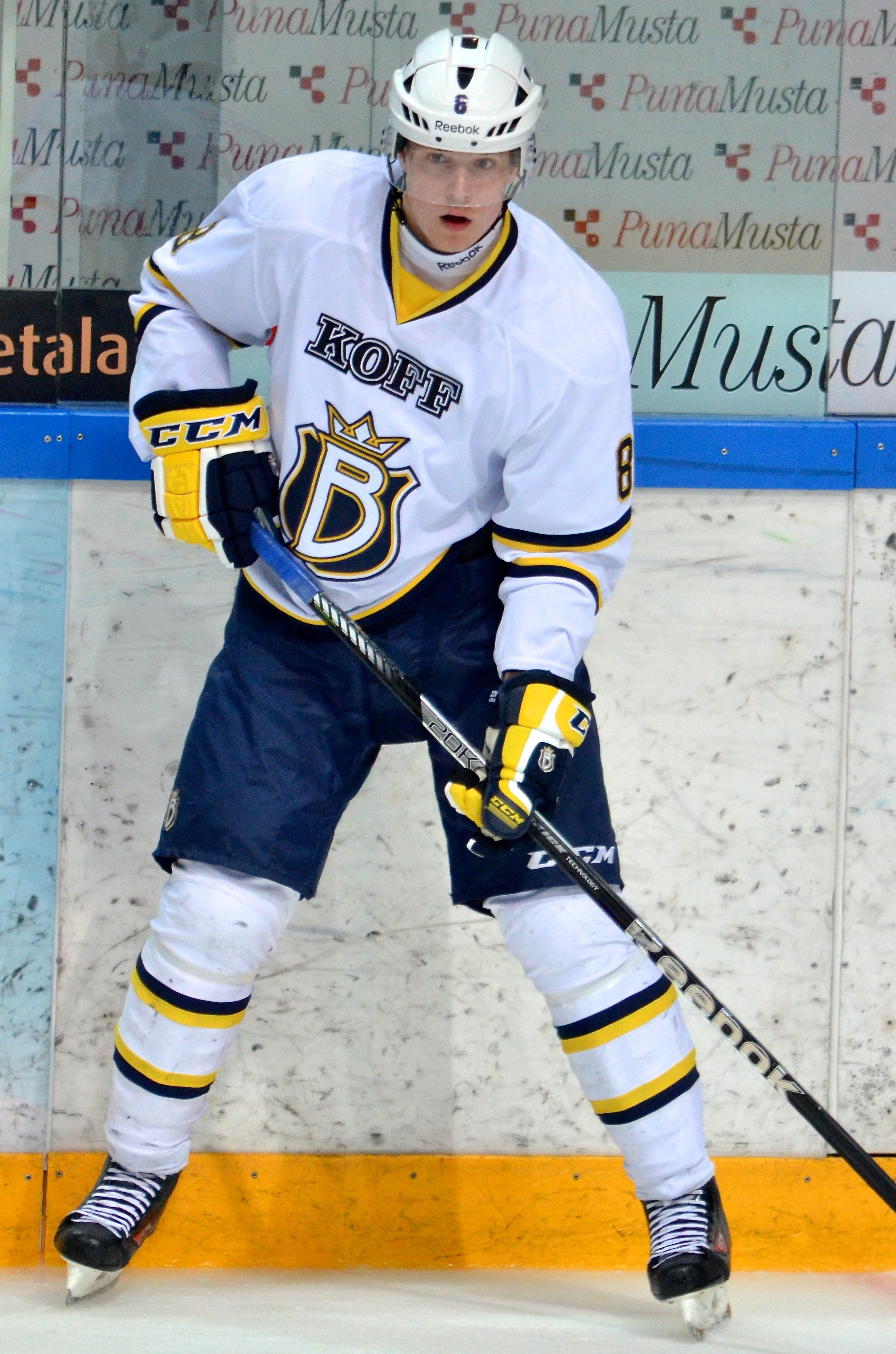 Estonian ice hockey forward Robert Rooba playing for the Finnish SM-liiga club Espoo Blues in a preseason game against Tampere Ilves in Tampere, in August, 2013.